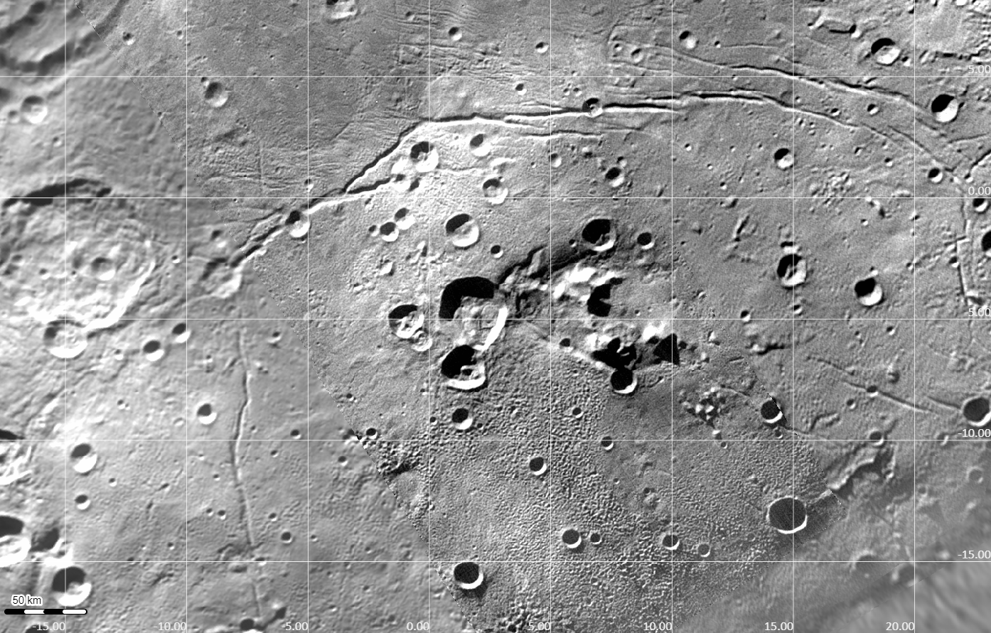 Kirk crater is shown in the center of this Mosaic map of Pluto's moon, Cheron